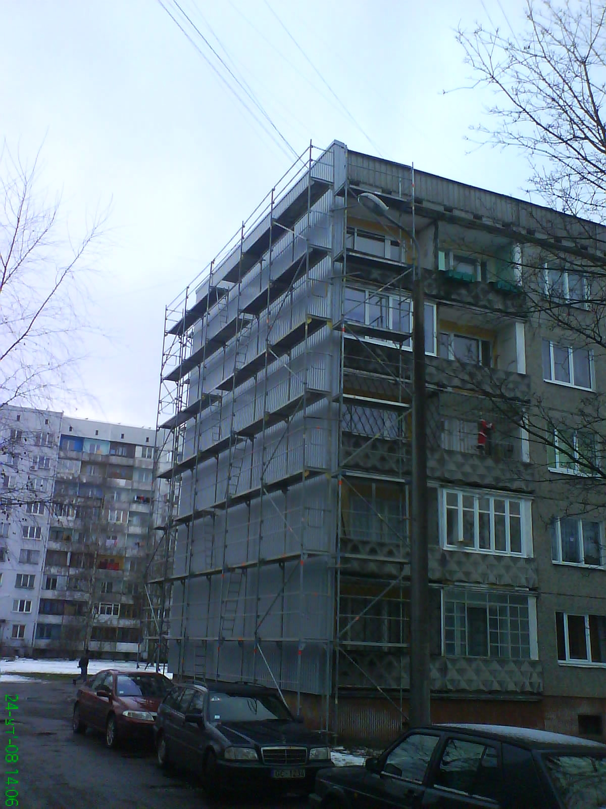 Old building wall insulation. Rīga, Latvia